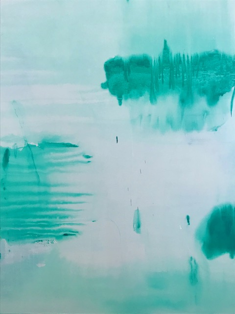 Image of Untitled (2019), by Bobbie Oliver. Acrylic on canvas. 66" x 78"